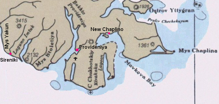 detail from Bering Sea nautical Chart extraneous detail removed, towns and airport marked, one label relocated